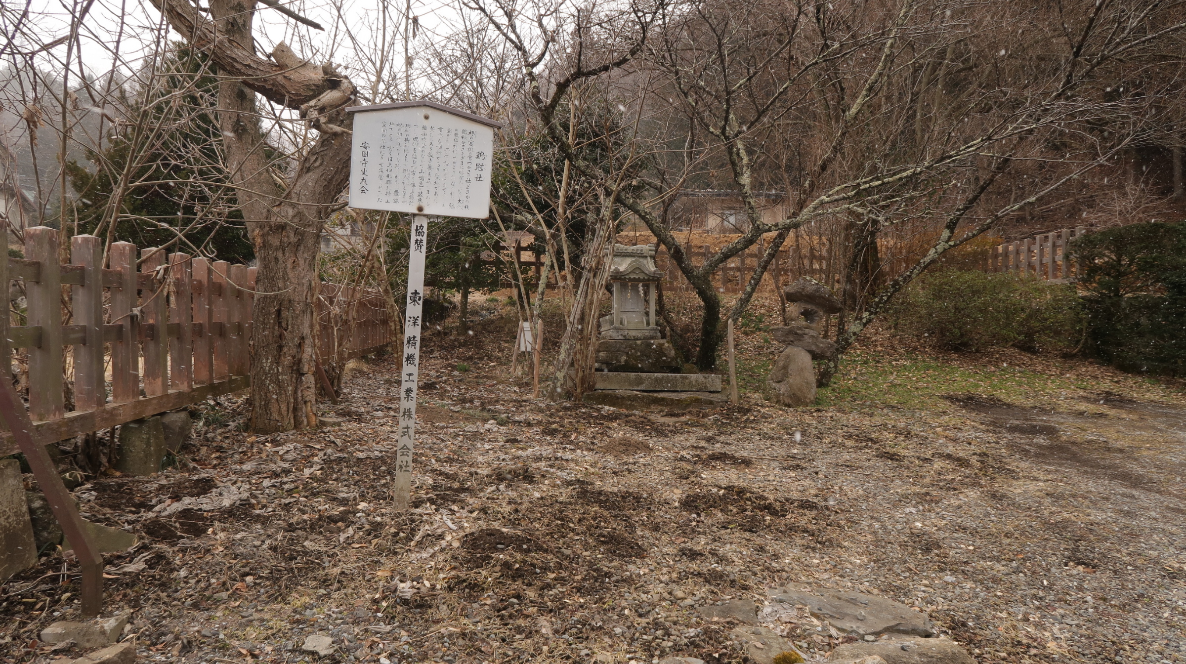 Keikan-sha (Suwa Taisha Kamisha Maemiya, Chino City)